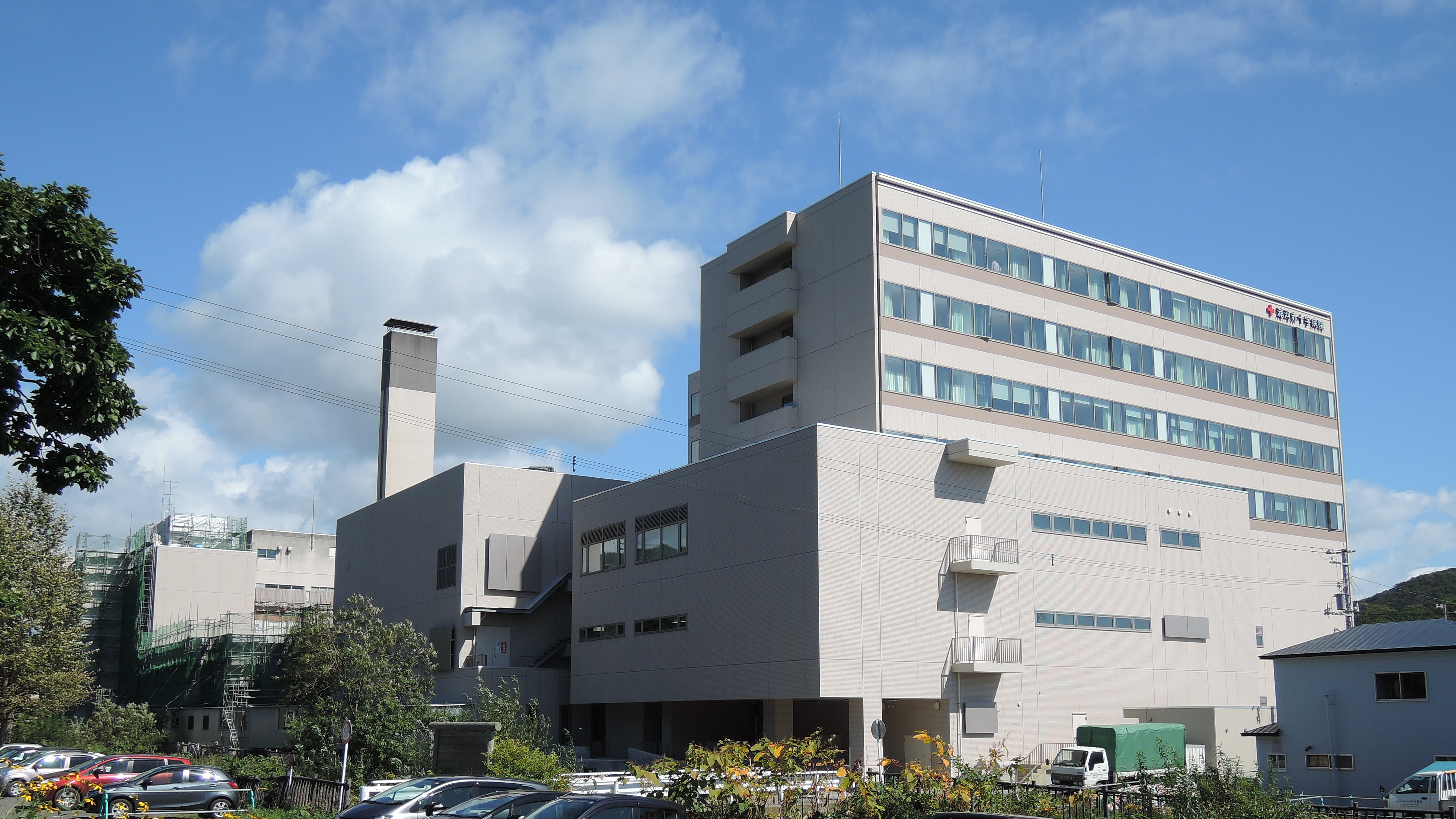 Urakawa red cross hospital,Hokkaido prefecture, Japan